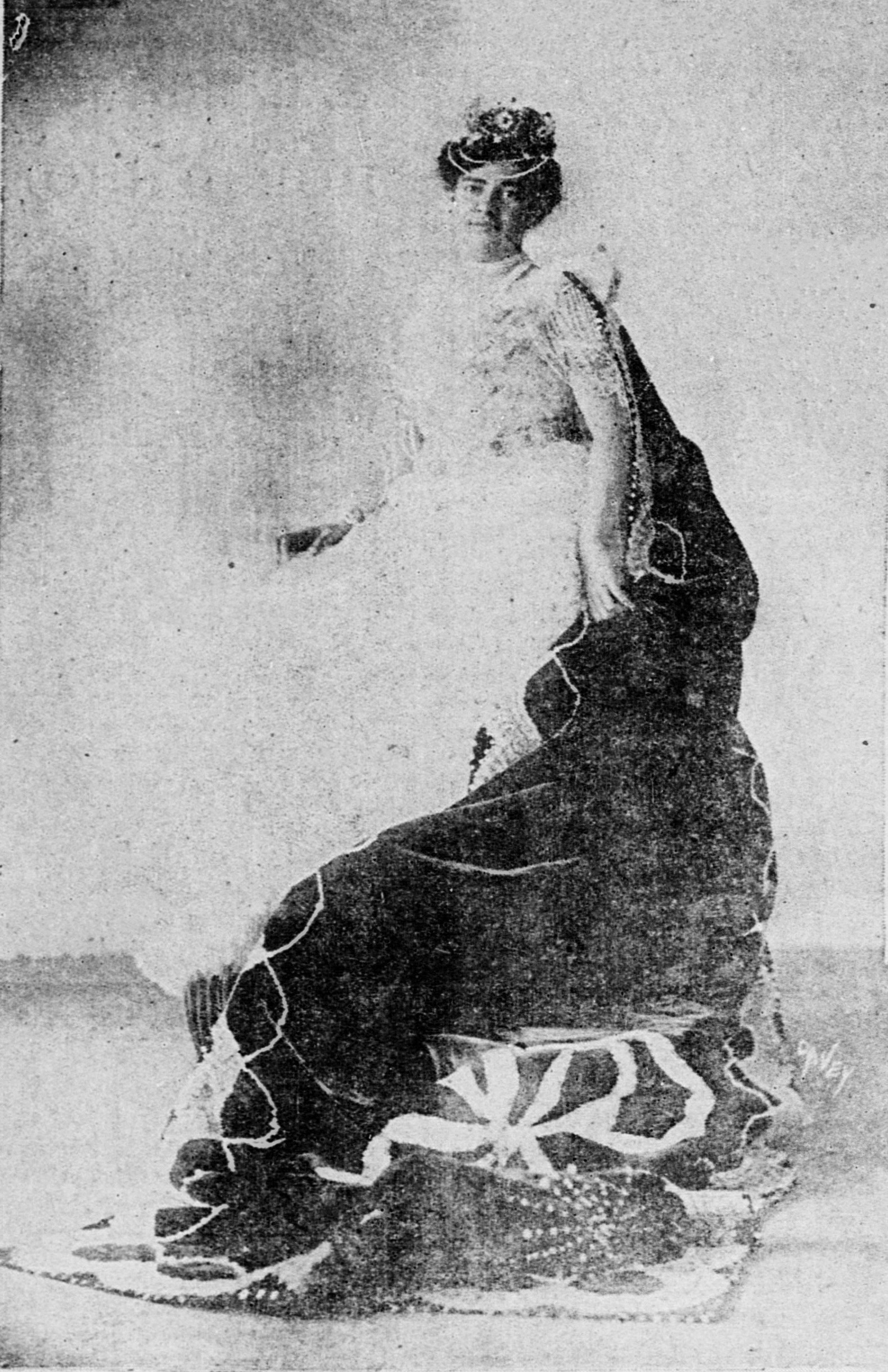 Miss Abigail Campbell prior to her marriage to Prince David Kawananakoa.